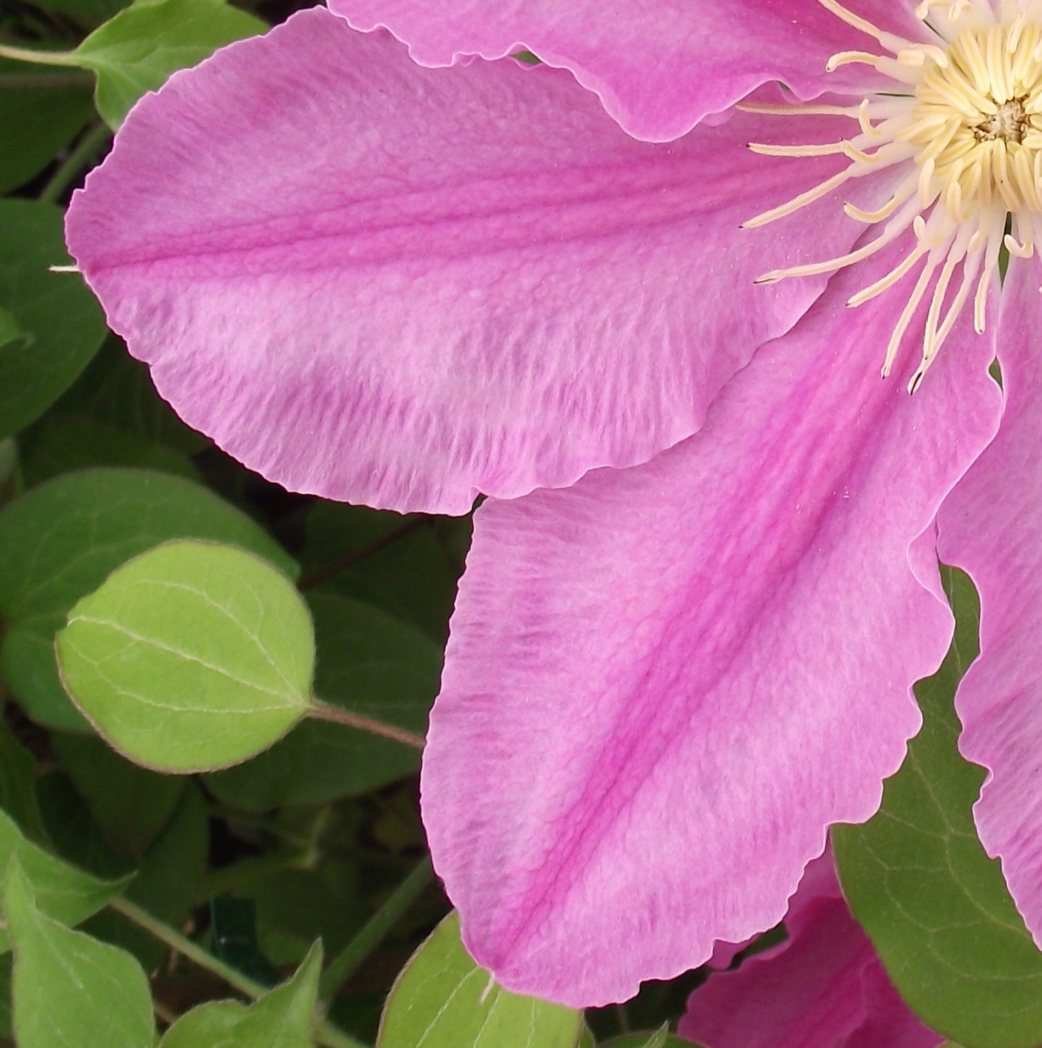 Clematis patens Abilène